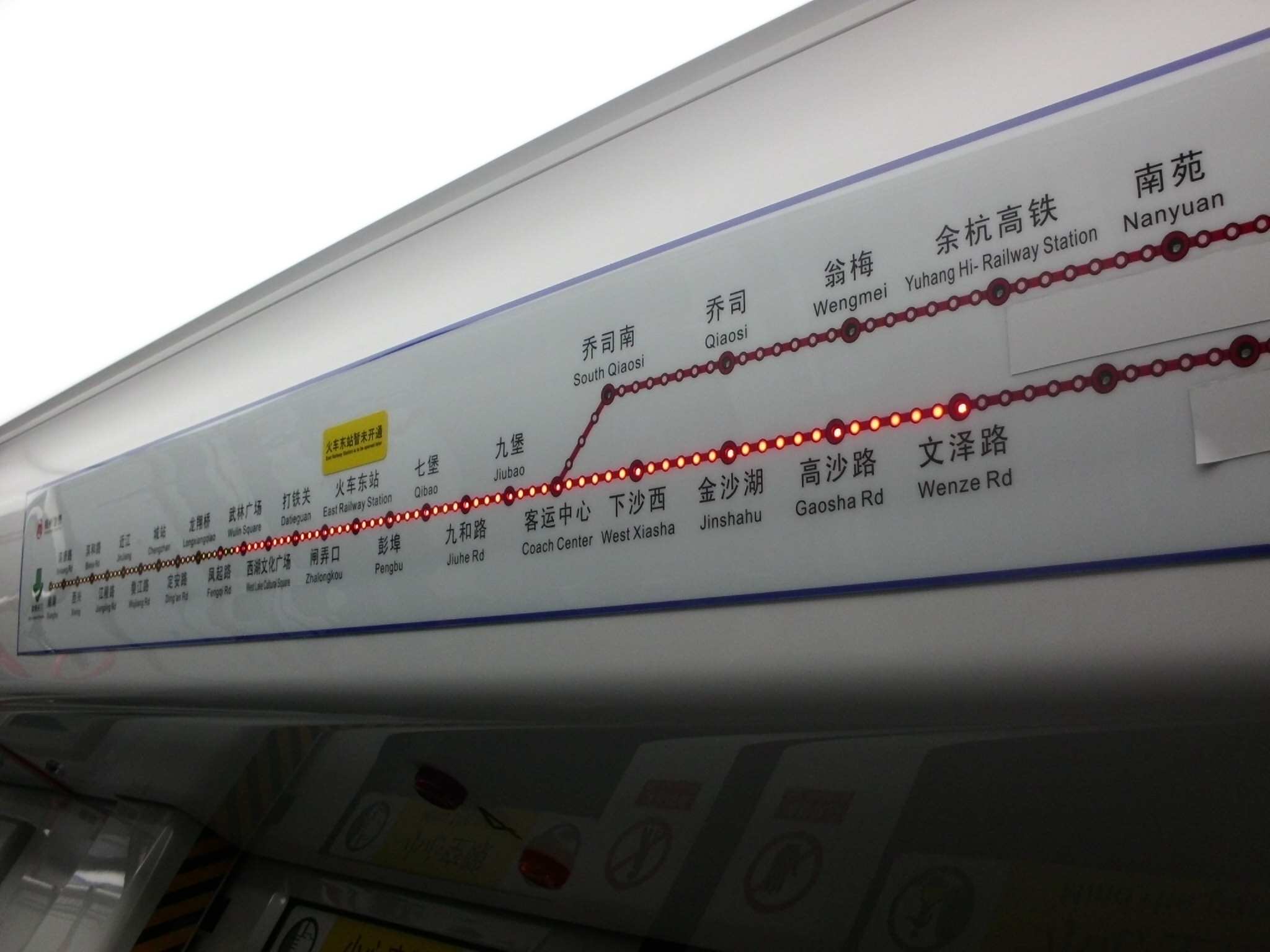 Hangzhou Metro